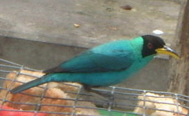 Male Green Honeycreeper, Trinidad